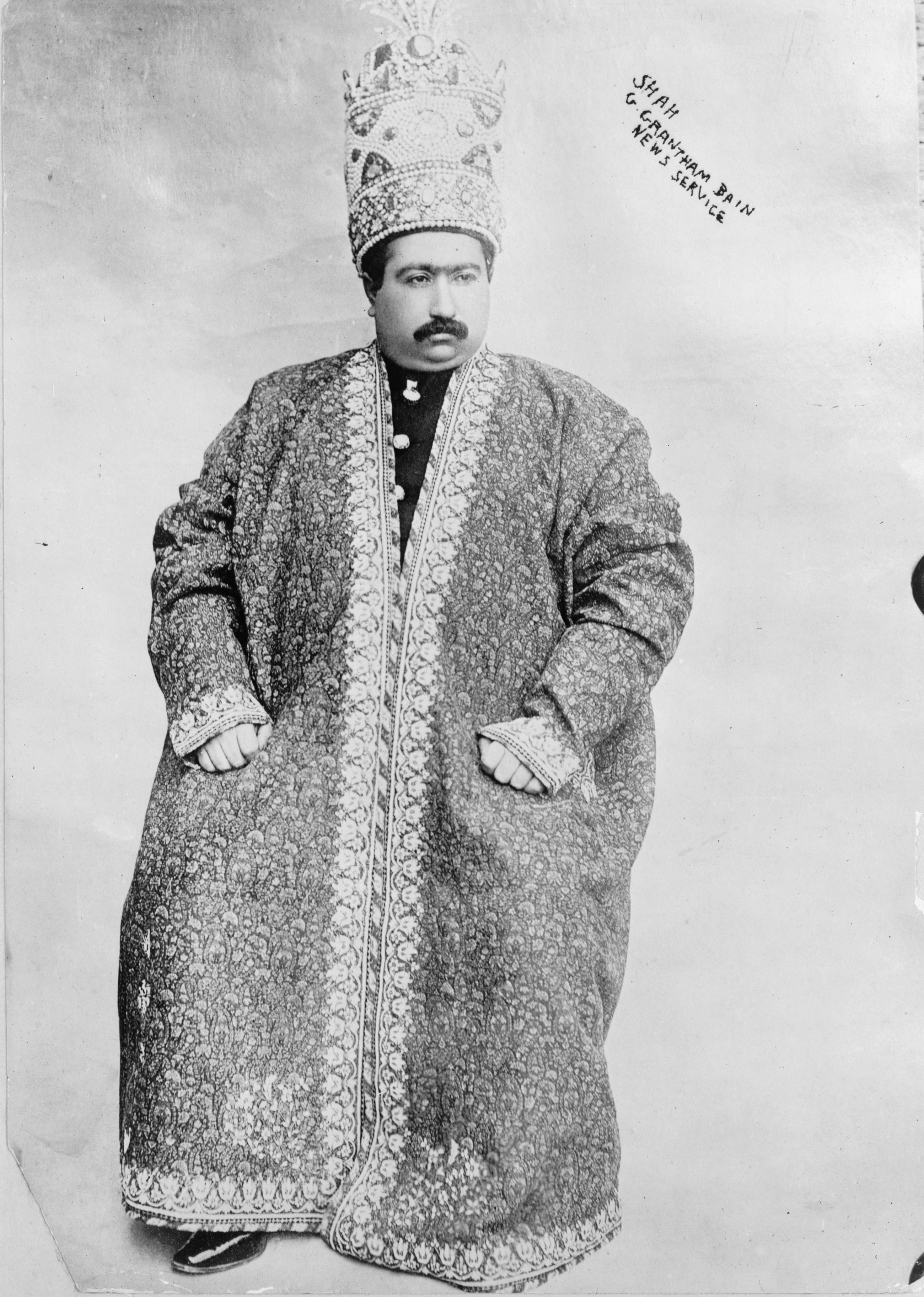 Shah of Persia, Mohammed Ali Mirzi, Dec. 19, 1907